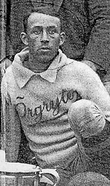 Swedish football goalkeeper Oscar "Påsket" Bengtsson before a game around 1908.